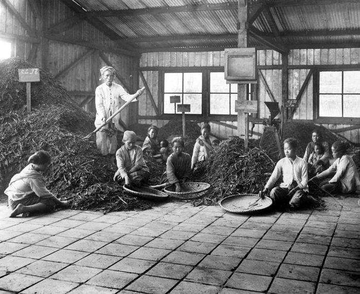 Labourers sorting out cinchona bark on the Cinchona estate Tjinjiroean, West-Java